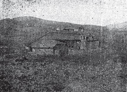 1912-1916 picture of the, now destroyed, church of Saint John, in Moscopolis. In front of the church lie the remains of the New Academy of Moschopolis.